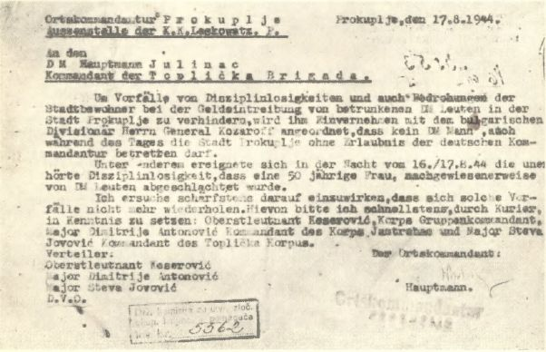 German order for the Chetniks in Prokuplje 17-08-1944.